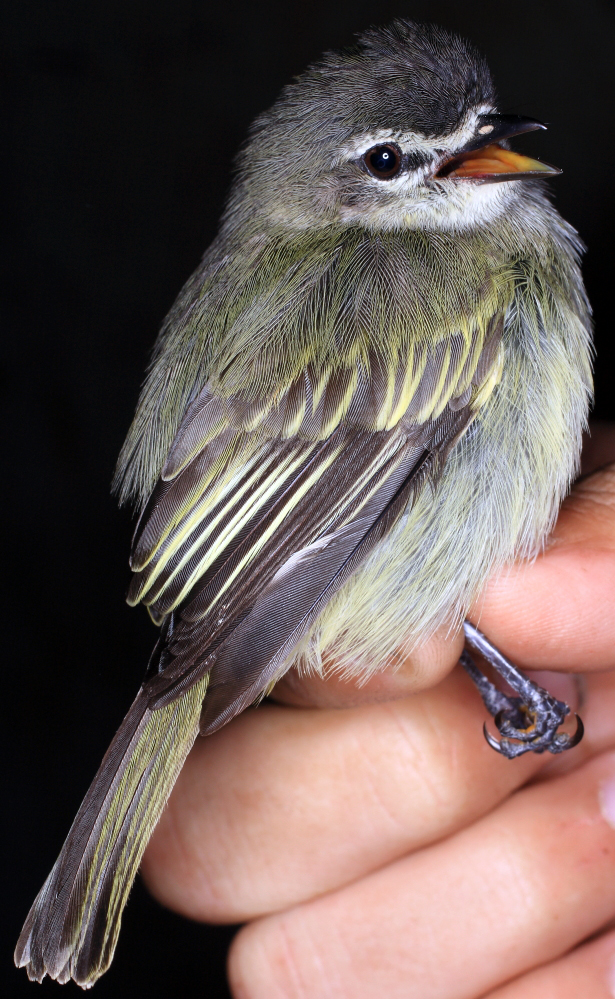 Zimmerius improbus Birds of Serranía de Perijá of Colombia and Venezuela (Ornitologia Colombiana [2014] 14: 62–93)